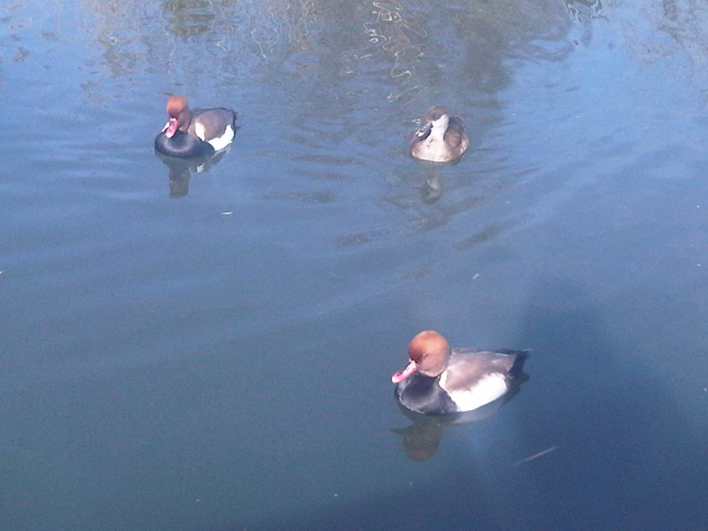 Red-crested Pochards (Netta rufina) in WWT London Wetland Centre, England.